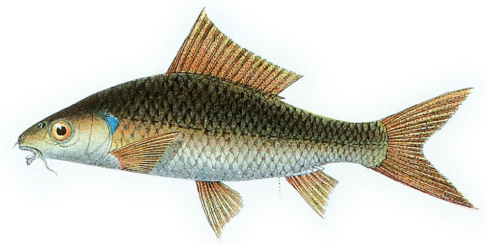 Osteochilus kahajanensis, identified in the original publication as Rohita (Rohita) kahajanensis